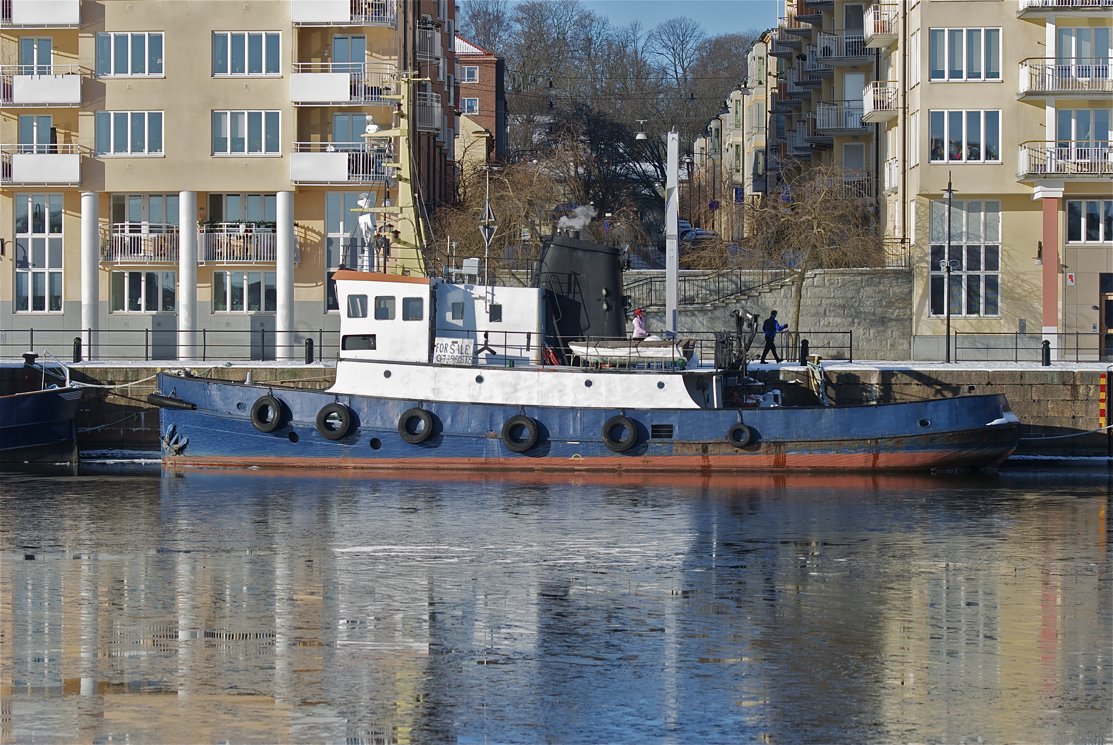 Tugboat Sandvik.